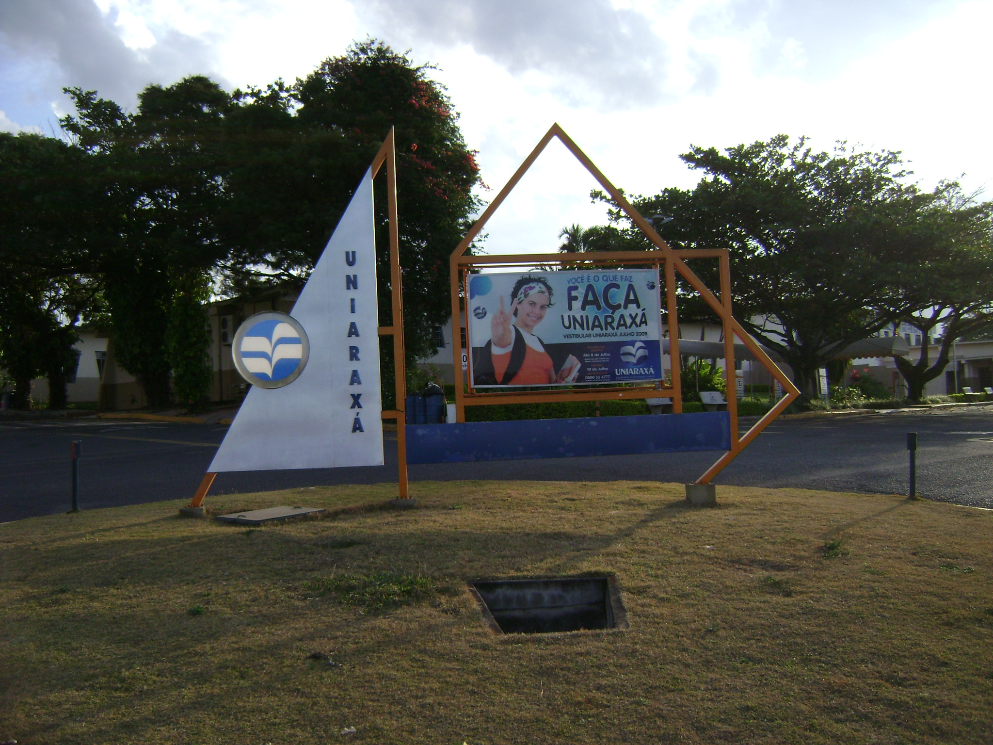 Entrada da UNIARAXÁ, em Araxá, Minas Gerais, Brasil.